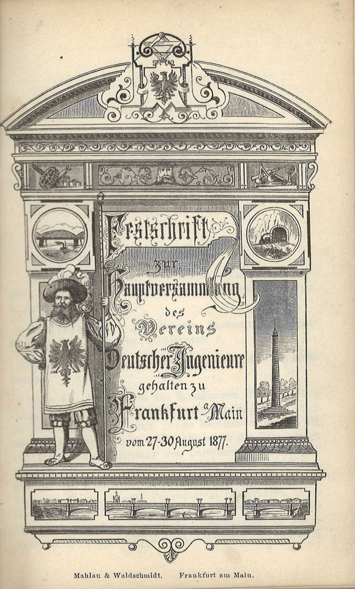 Title page of the Memorial Script of the General Meeting of the Association of German Engineers 1877 in Francfort